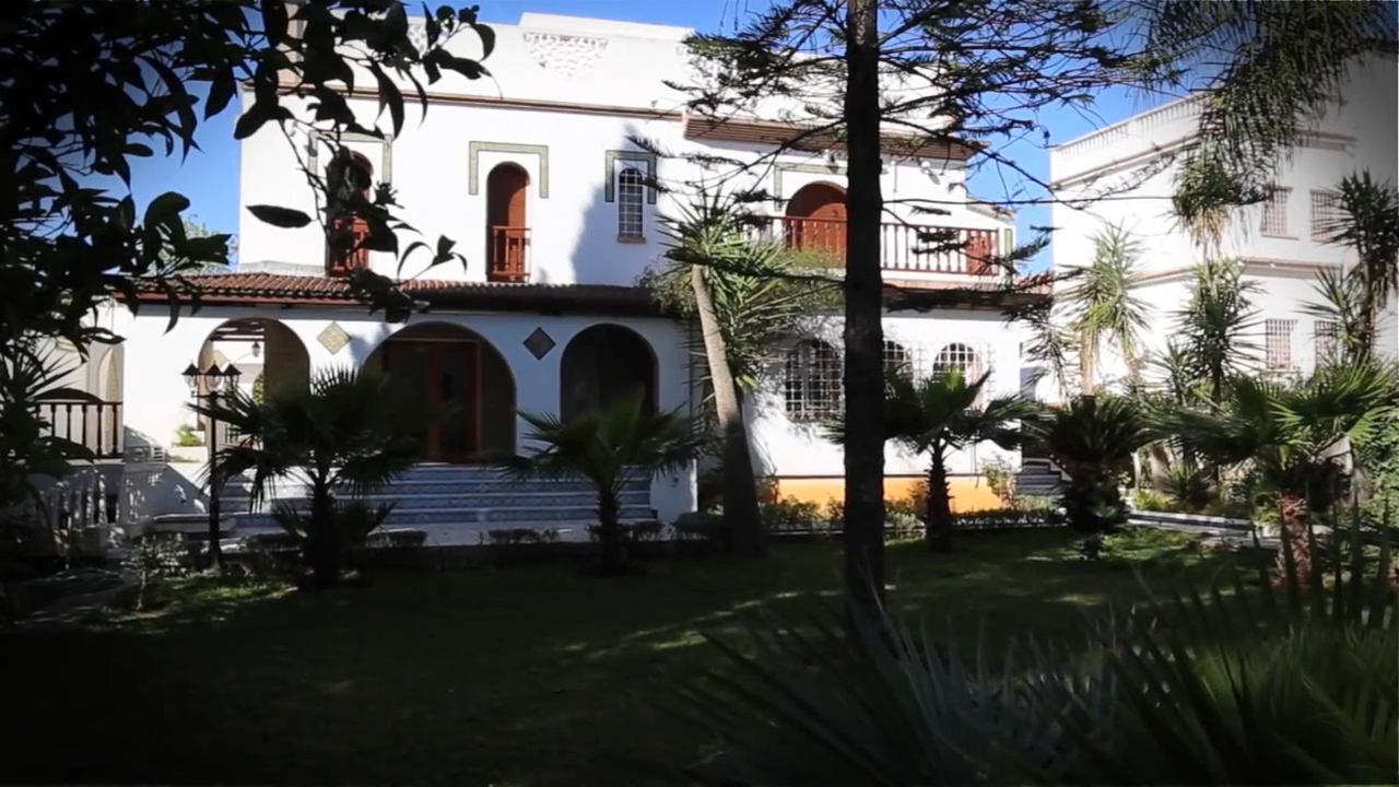 Villa of the American International School Algiers (AISA) located in Mackley Road, Ben Aknoun, Algiers.